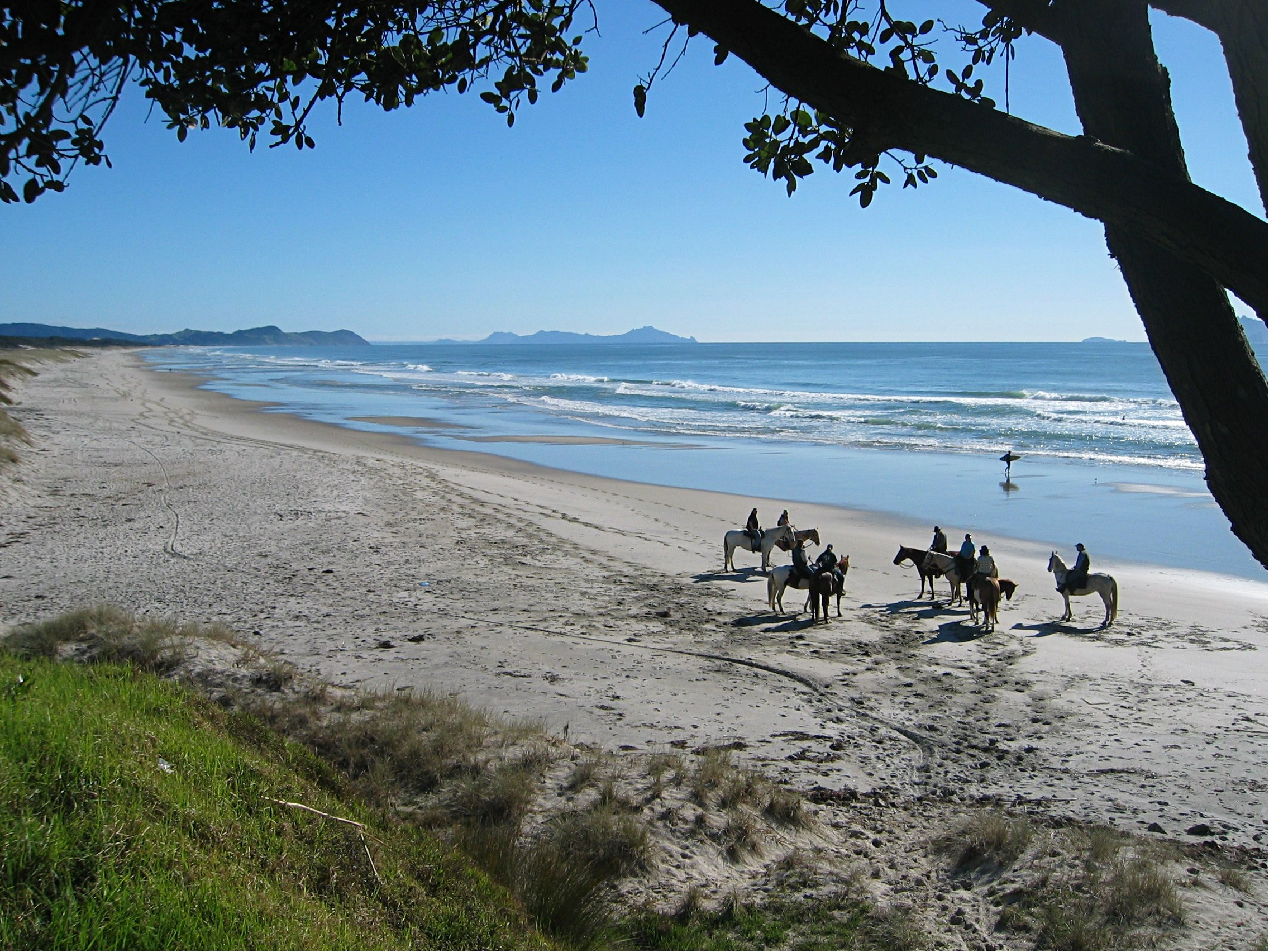 Horse riders and surfers on Te Arai Beach, Auckland, New Zealand.